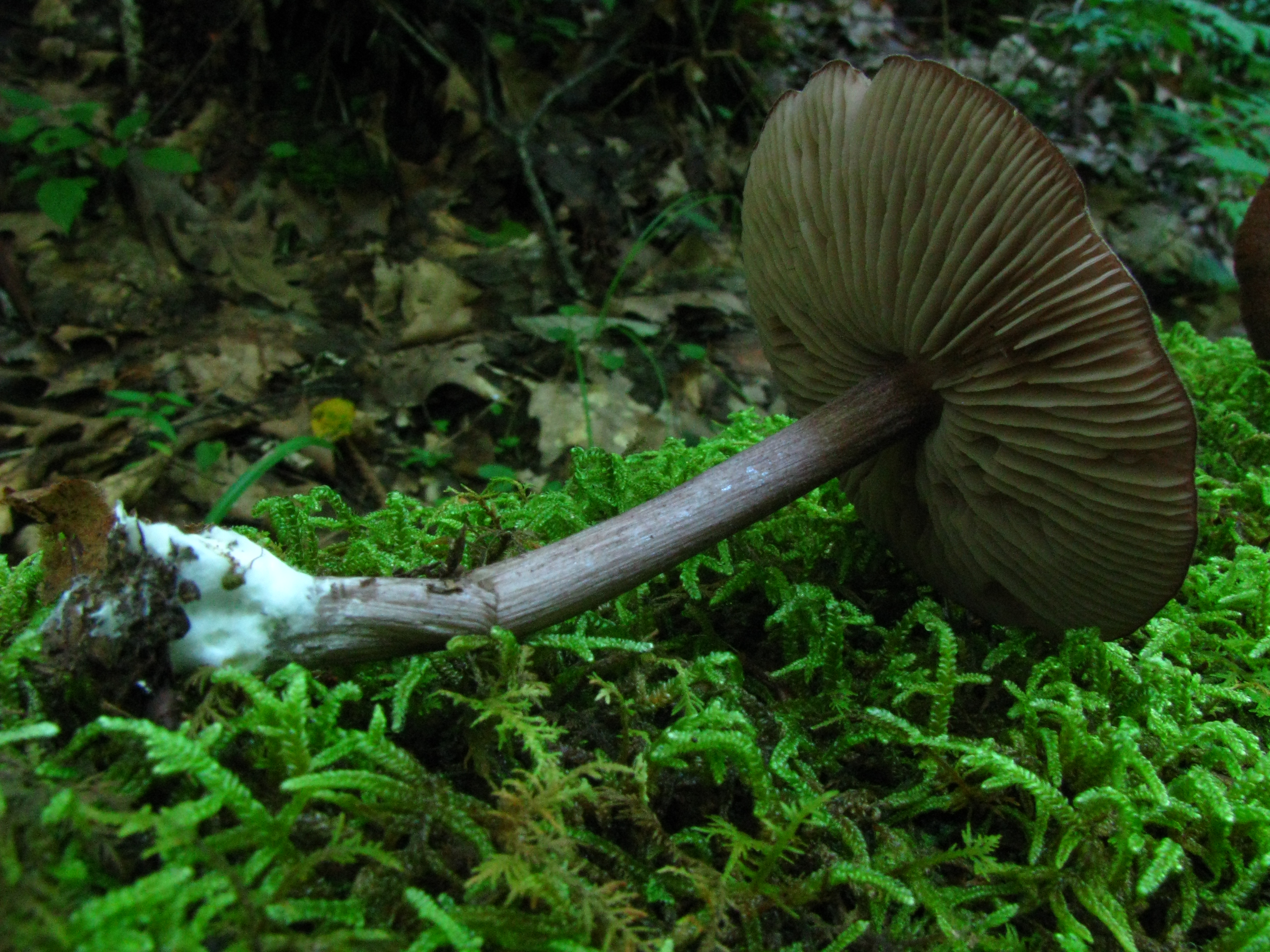 Entoloma porphyrophaeum Location: Muddlety Creek Trail, Summersville, West Virginia, USA Observation Notes: This mushroom was growing in a small grassy area on old overgrown longing road. For more information about this, see the observation page at Mushroom Observer.